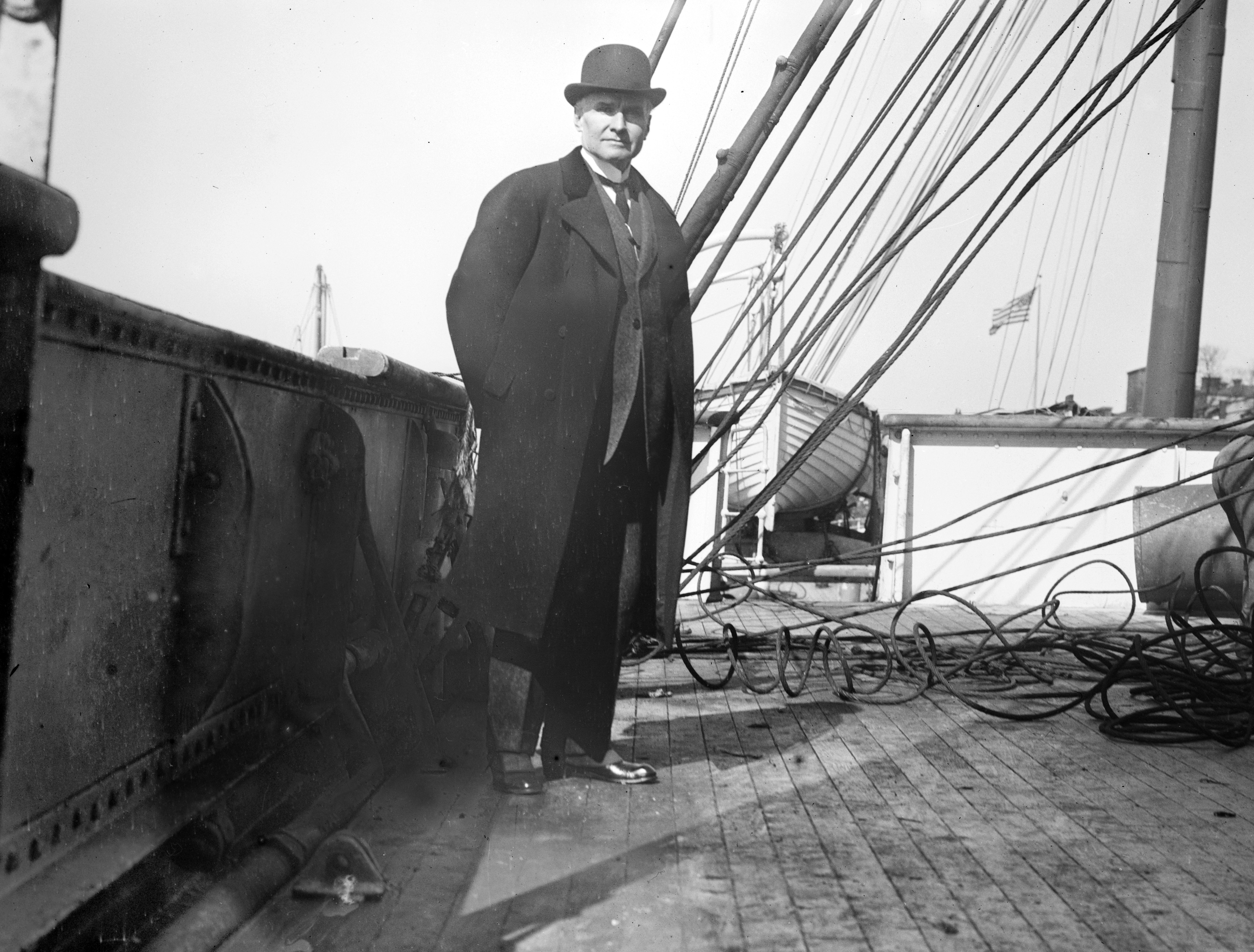 American conductor and composer, Walter Damrosch circa 1914